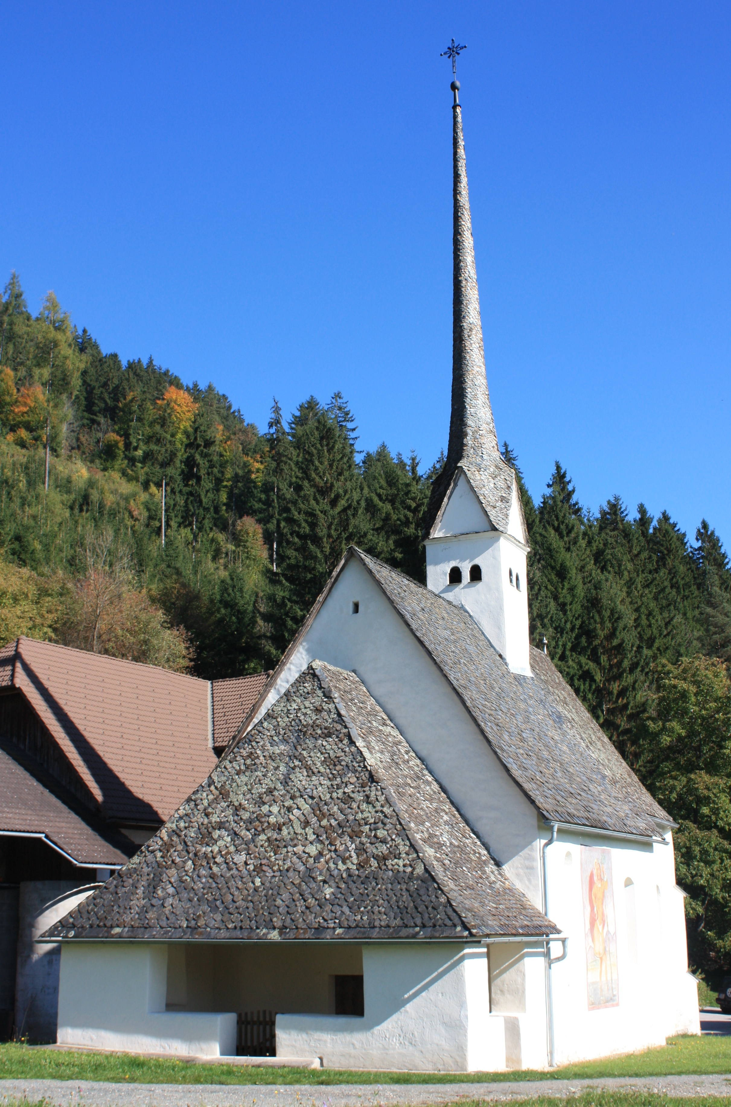 Subsidiary church Saint Thomas in Gletschach in the community of Griffen